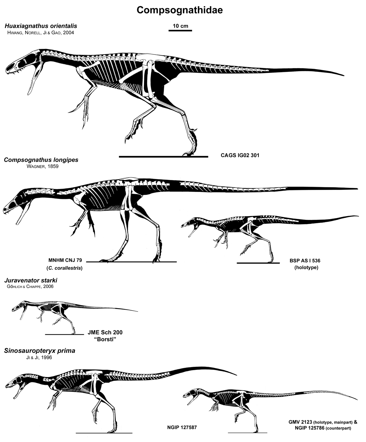 Compsognathidae skeletons to scale.